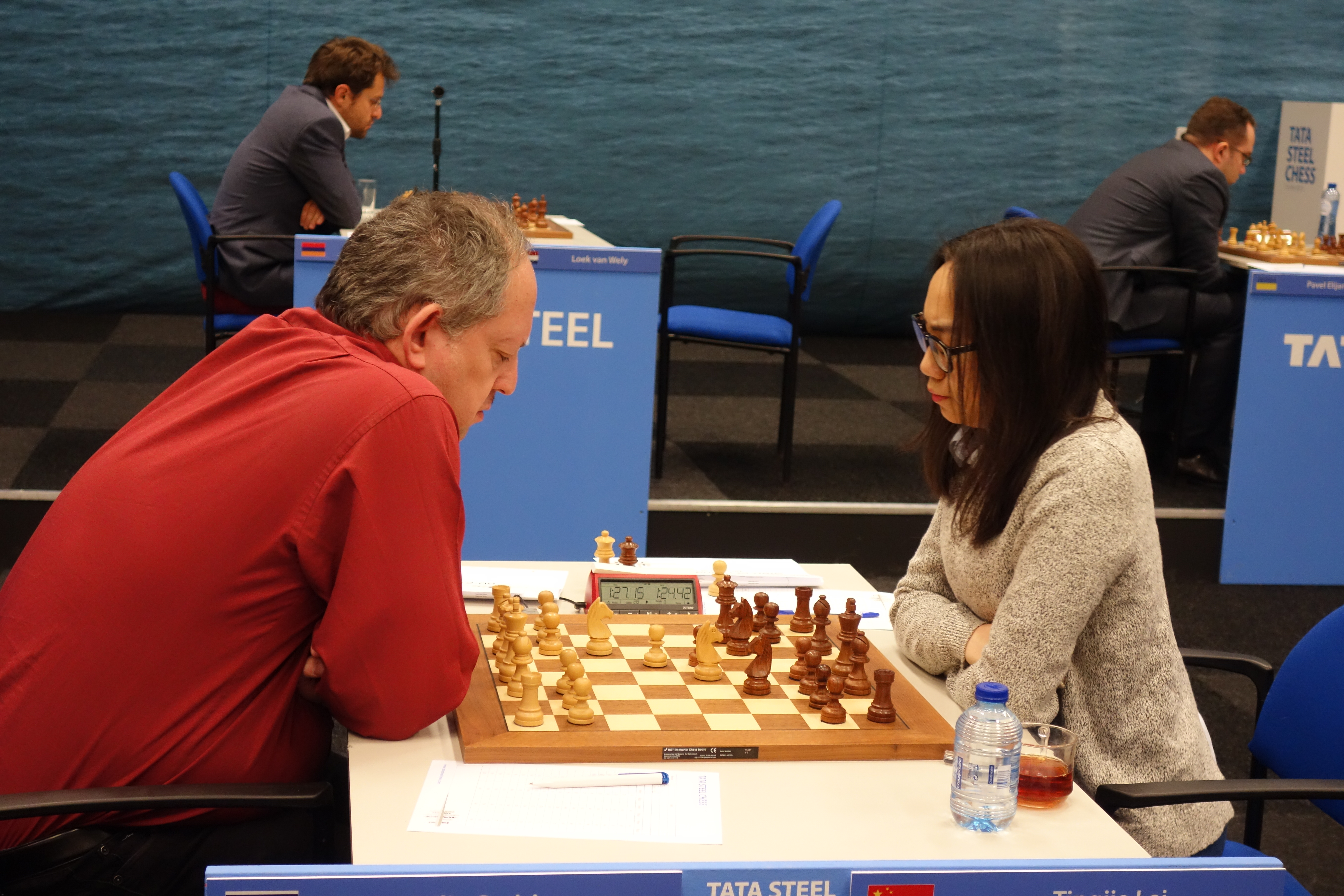 Ilia Smirin vs. Lei Tingjie. Tata Steel Chess Tournament 2017, Wijk aan Zee (the Netherlands), 28 January 2017